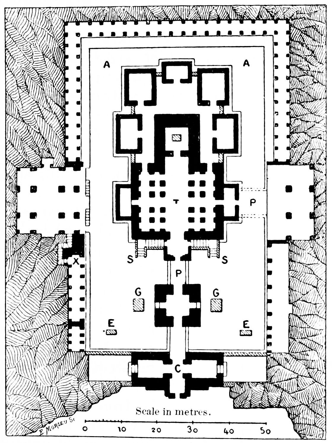 Plan of the temples at Kylas